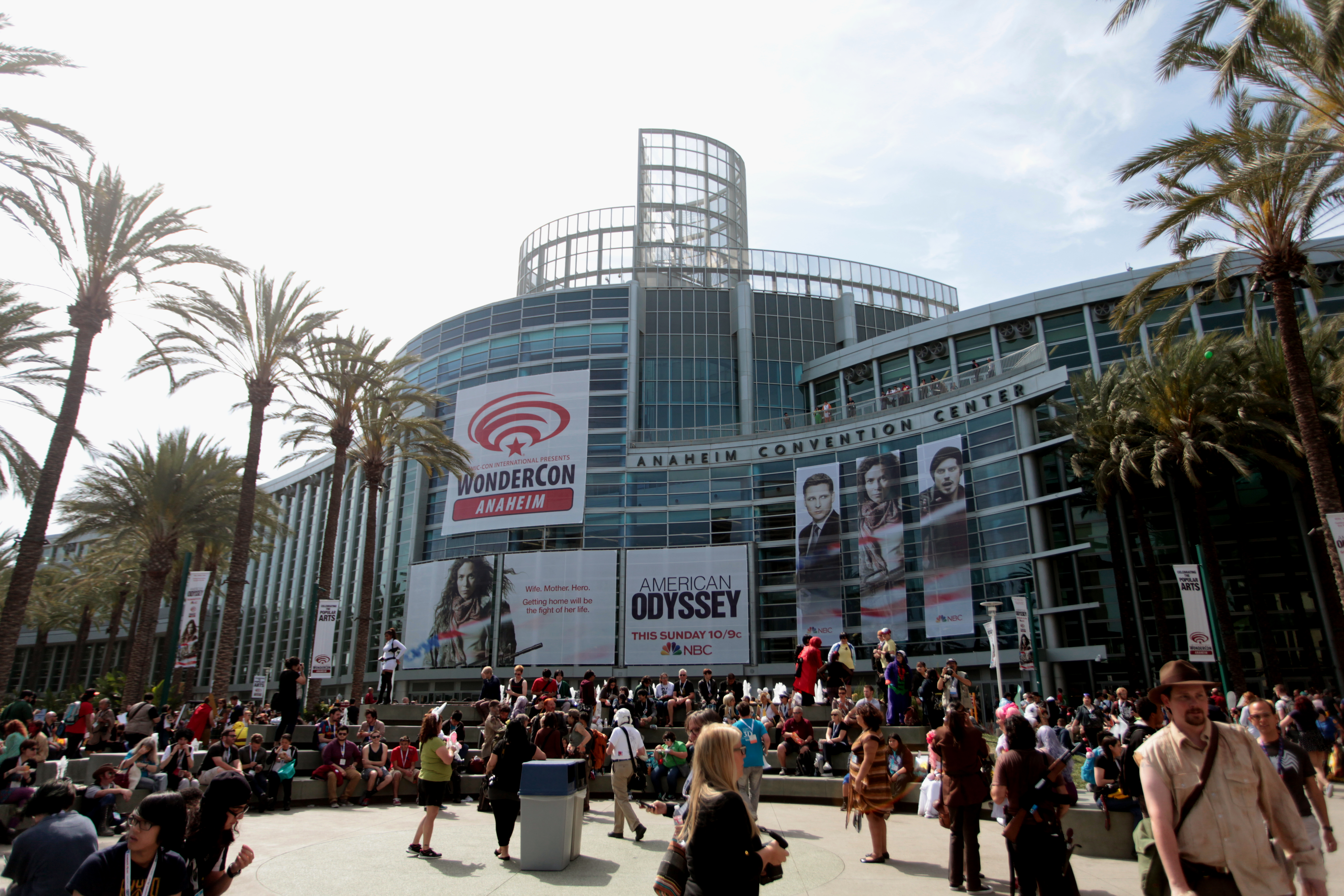 The 2015 Wondercon at the Anaheim Convention Center in Anaheim, California.